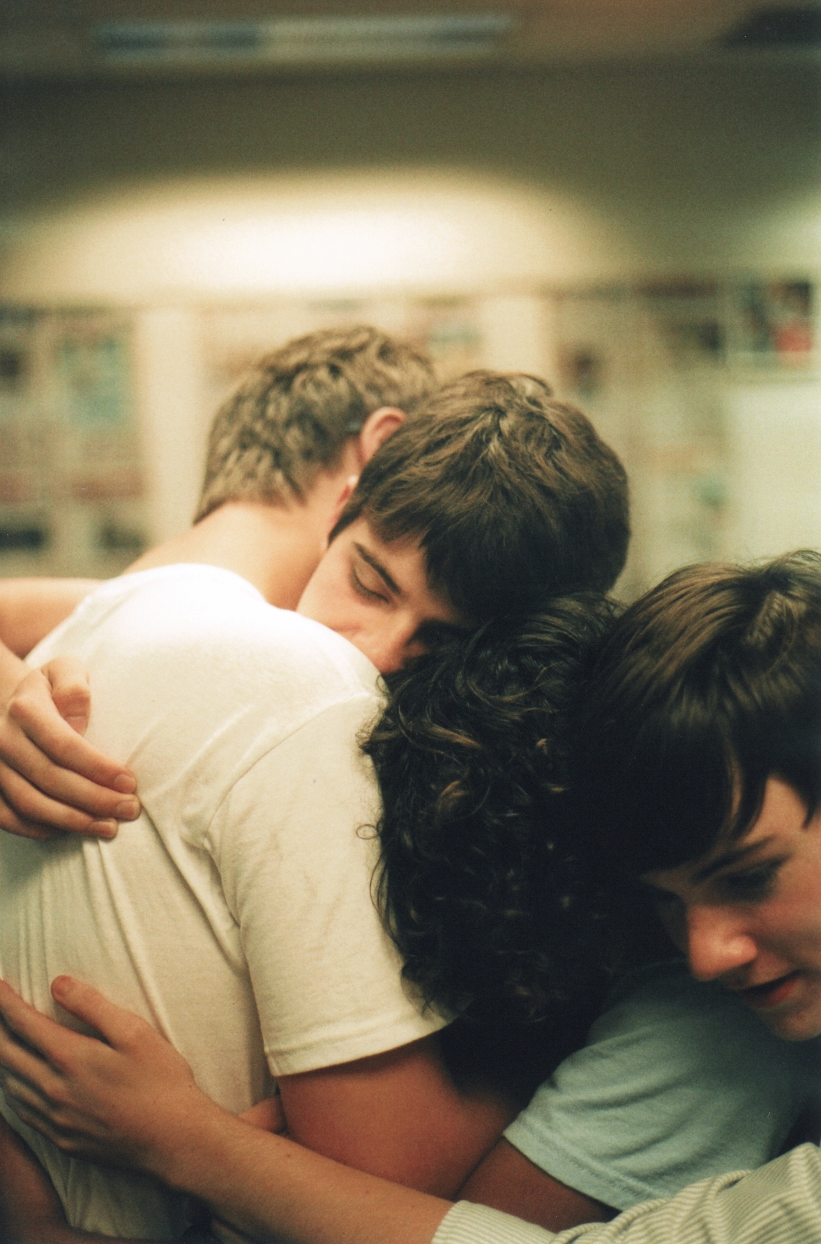 Bromance at its finest. Taken with a Canon AV-1.